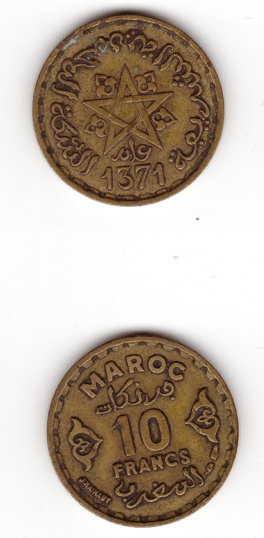 Morocco, coin of 10 francs Maroc, piece de 10 francs Marruecos, moneda de 10 francos Scan from own collection